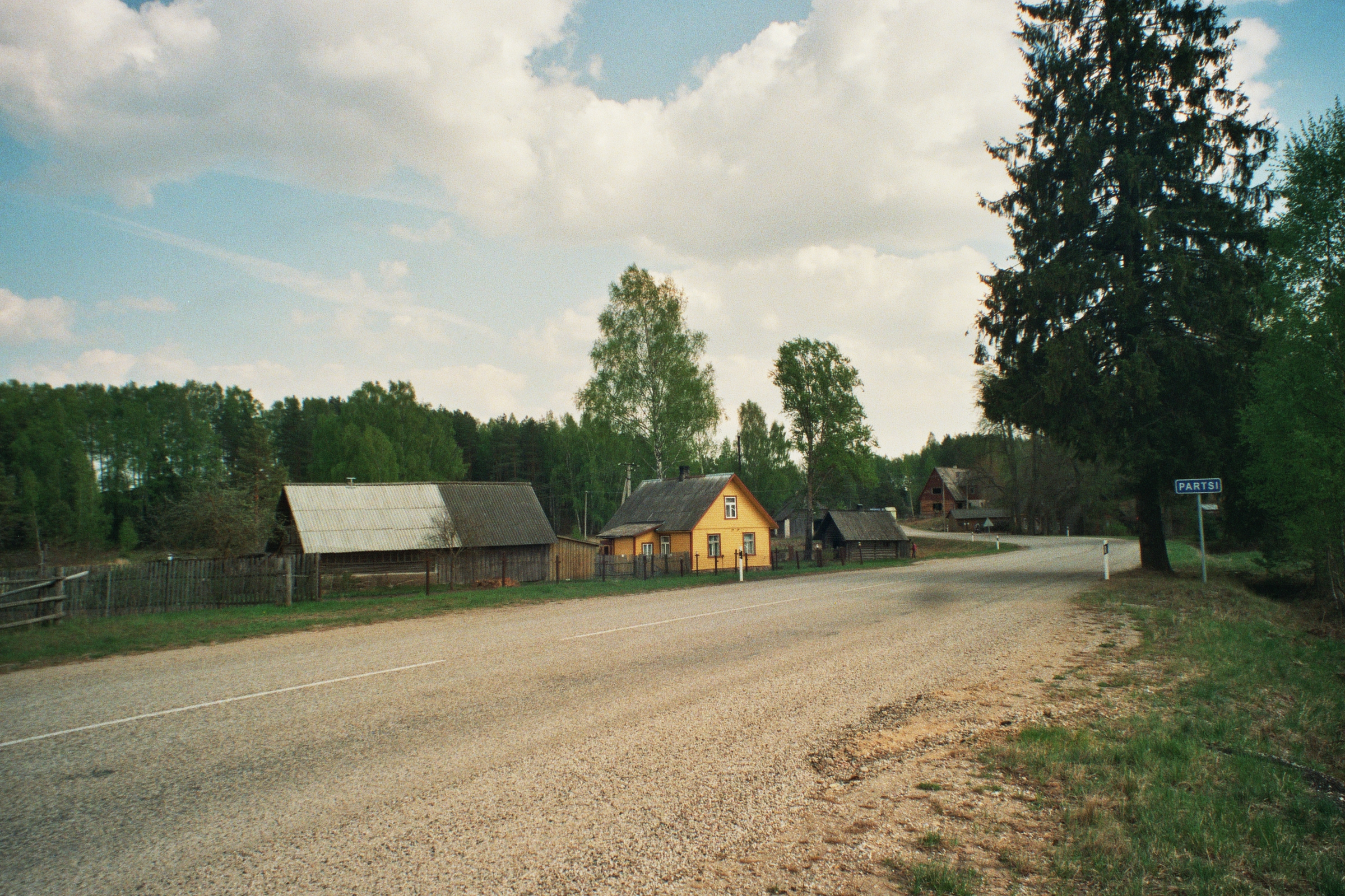 The rural Estonian village of Partsi in Põlva County.